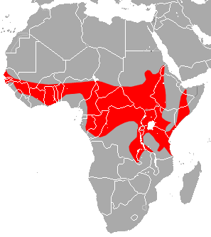 Yellow-winged Bat (Lavia frons) range